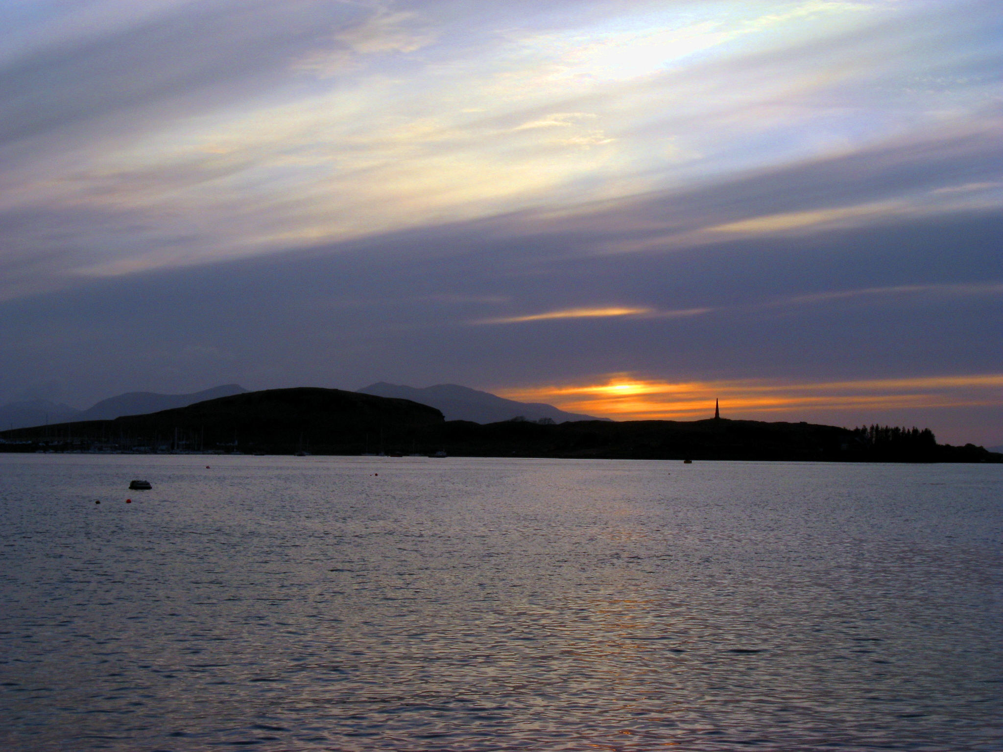 Sunset over the isle of Kerrera, viewed from the Scottish town of Oban. The monument is prominently visible silhouetted in front of the setting sun.